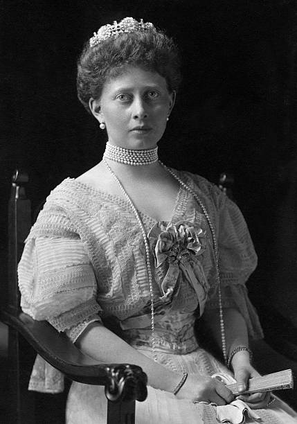 Princess Margaret of Prussia, later Princess anf Landgravine Frederick Charles of Hesse